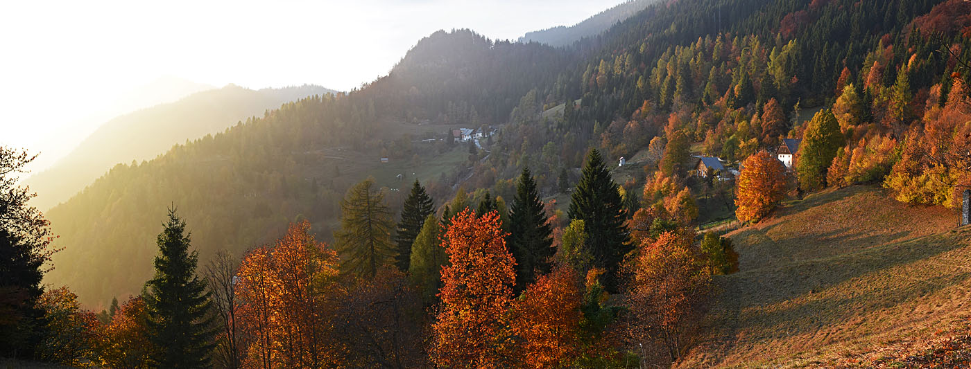 Torka village is high situated set of hamlets below Ratitovec mountain.